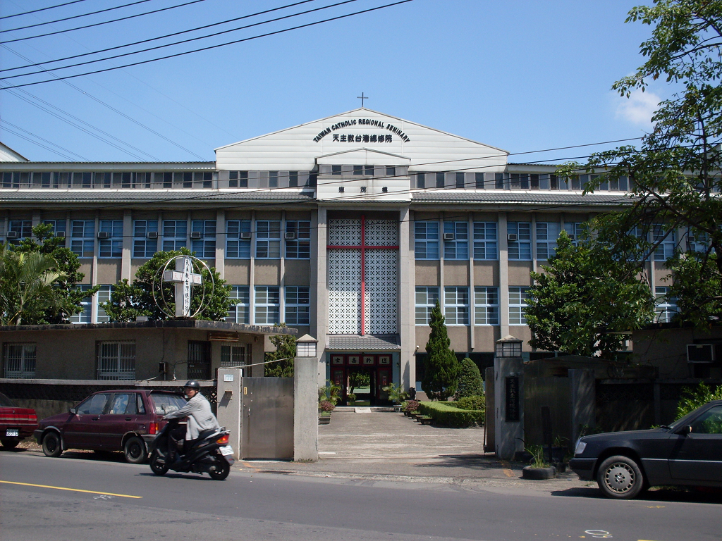 Former site of Taiwan Catholic Regional Seminary at Taishan Township, Taipei County, Taiwan.